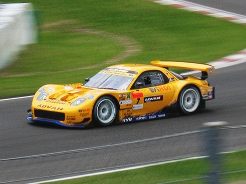 RE AMEMIYA RACING Mazda RX-7 in the SuperGT series.